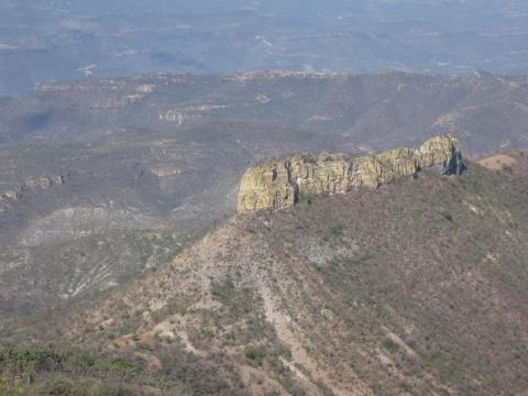 Photo of Canyon of Bolanos in Villa Guerrero, Jalisco